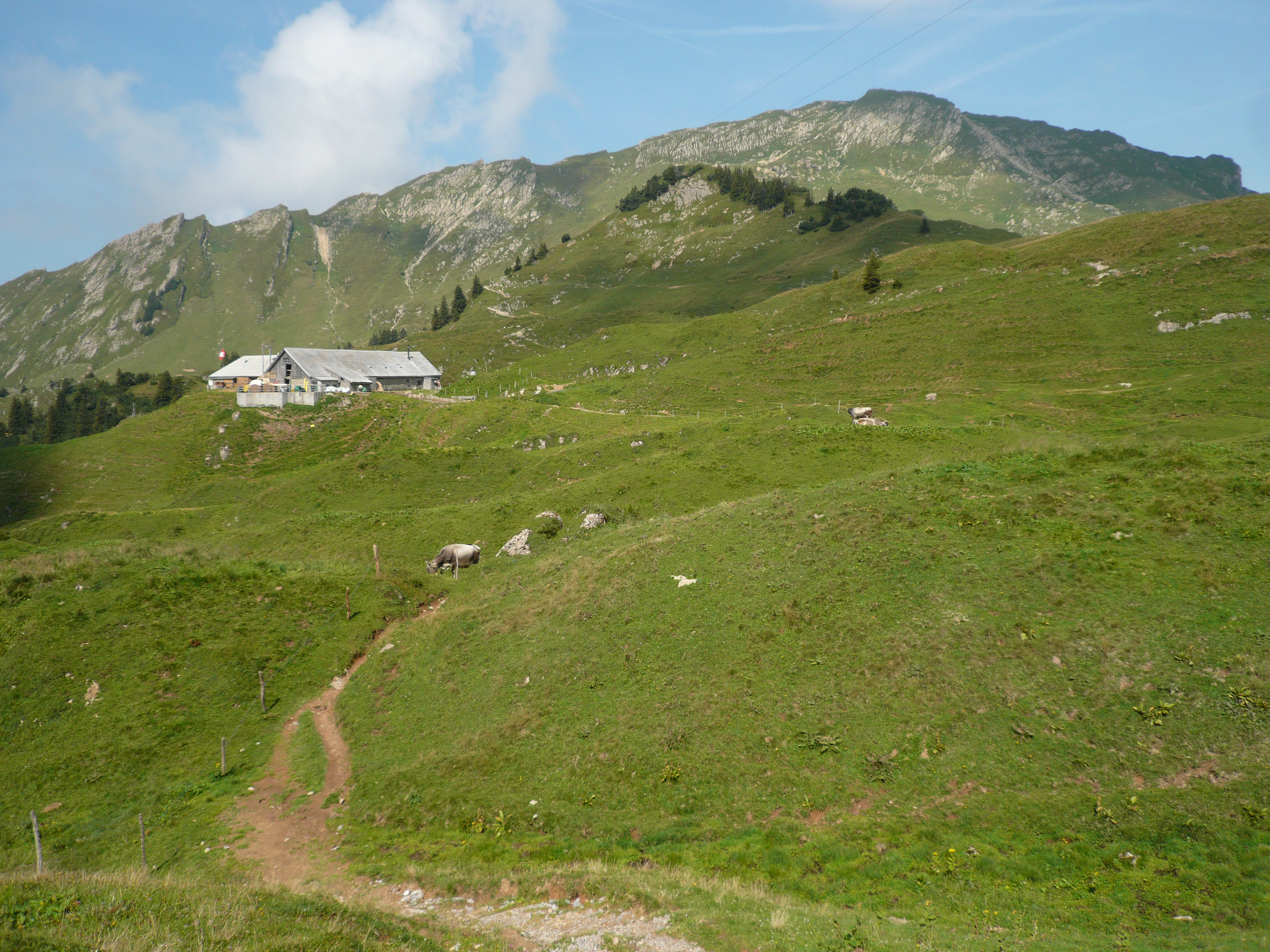 Farm Oberchaeseren / Oberkaesern near mountain Speer, Switzerland